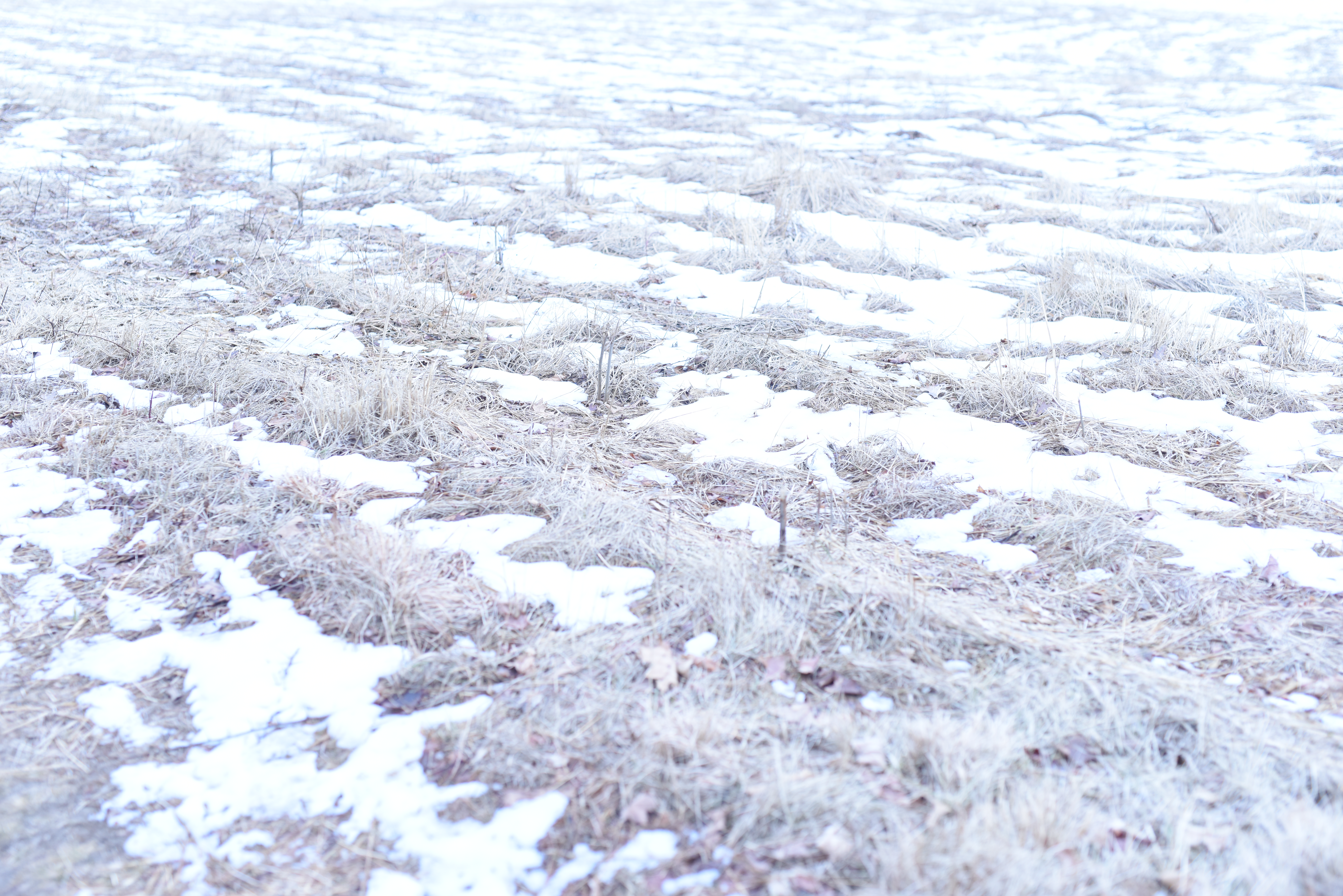 Audubon Center at Bent of the River, winter 2016, landscape.